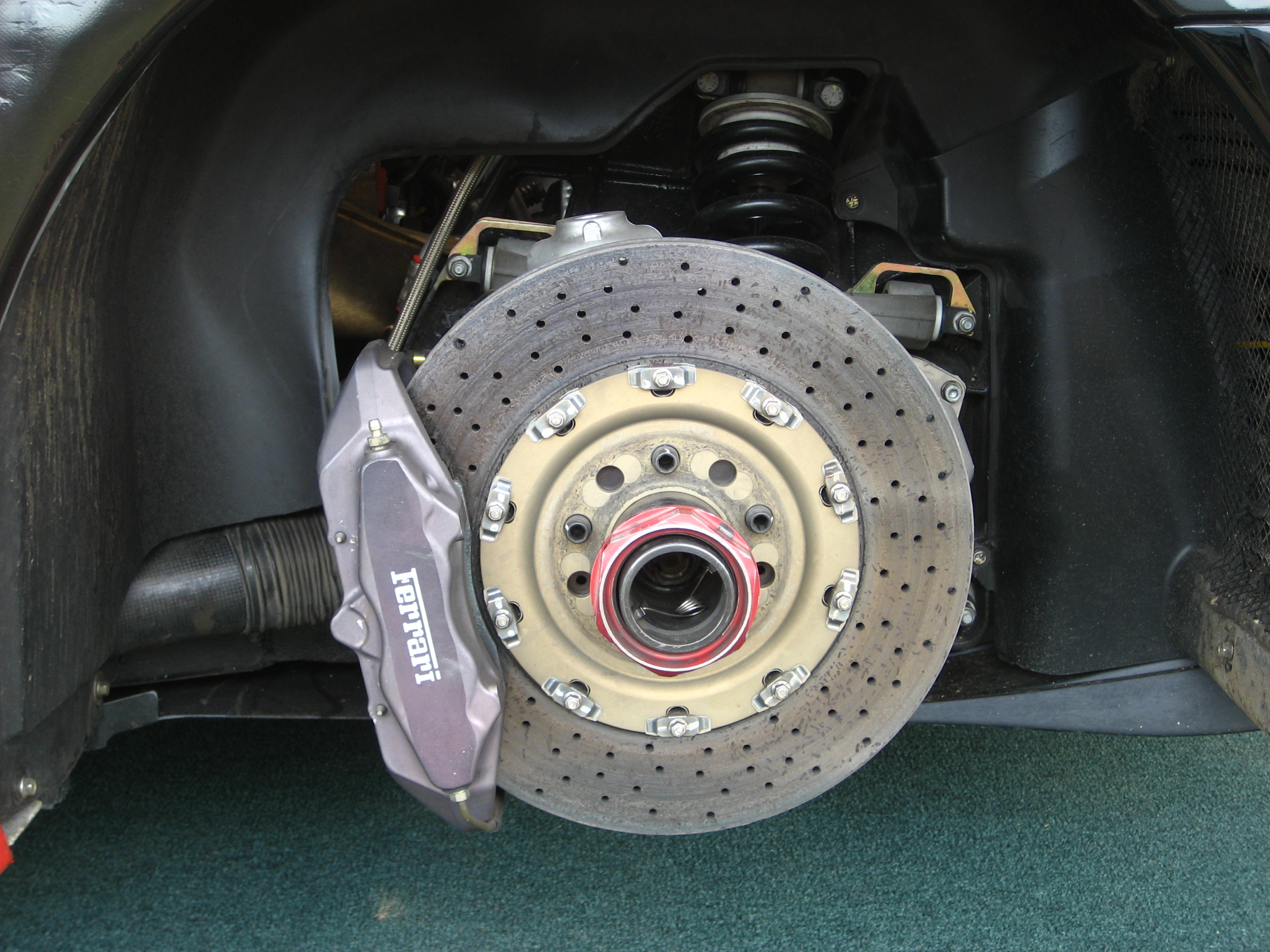 The disc brake assembly of a Ferrari F430 Challenge at New Jersey Motorsports Park.